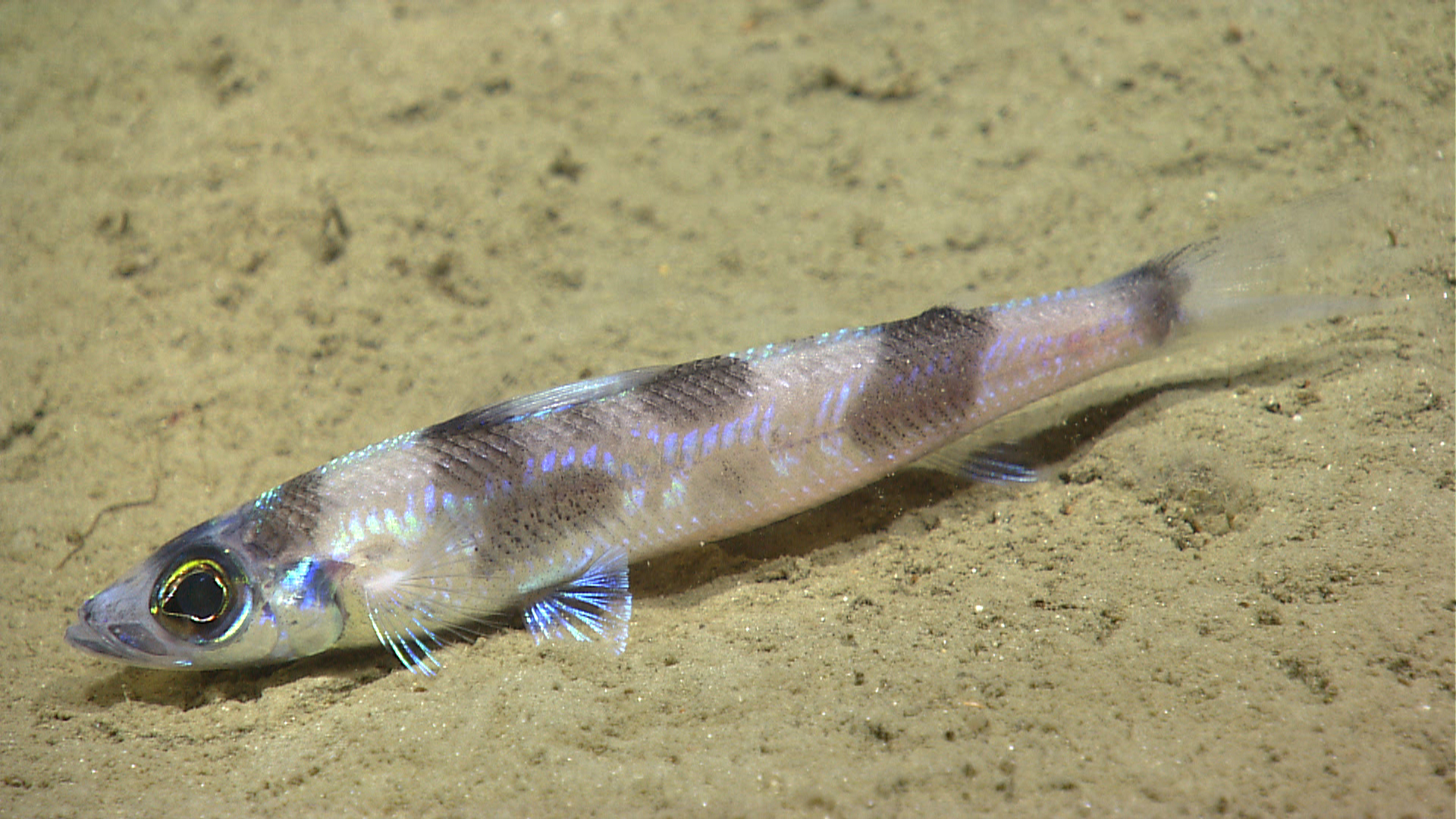 Deep sea fish. Shortnose greeneye (Chlorophthalmus agassizi) Image ID: expl9945, Voyage To Inner Space - Exploring the Seas With NOAA Collect Location: Between Alvin and Nantucket Canyons, 896-778m Photo Date: 20130816T170246Z Credit: NOAA OKEANOS Explorer Program , 2013 Northeast U. S. Canyons Expedition